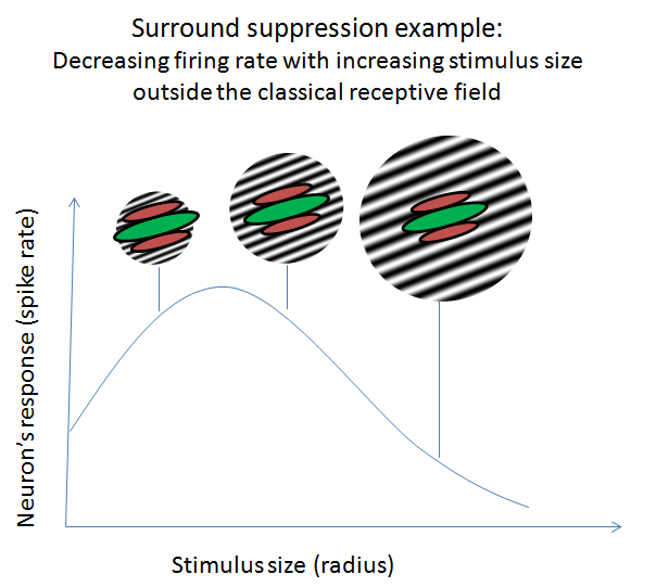 In many cases, the cell becomes more suppressed as more of the surround is stimulated.